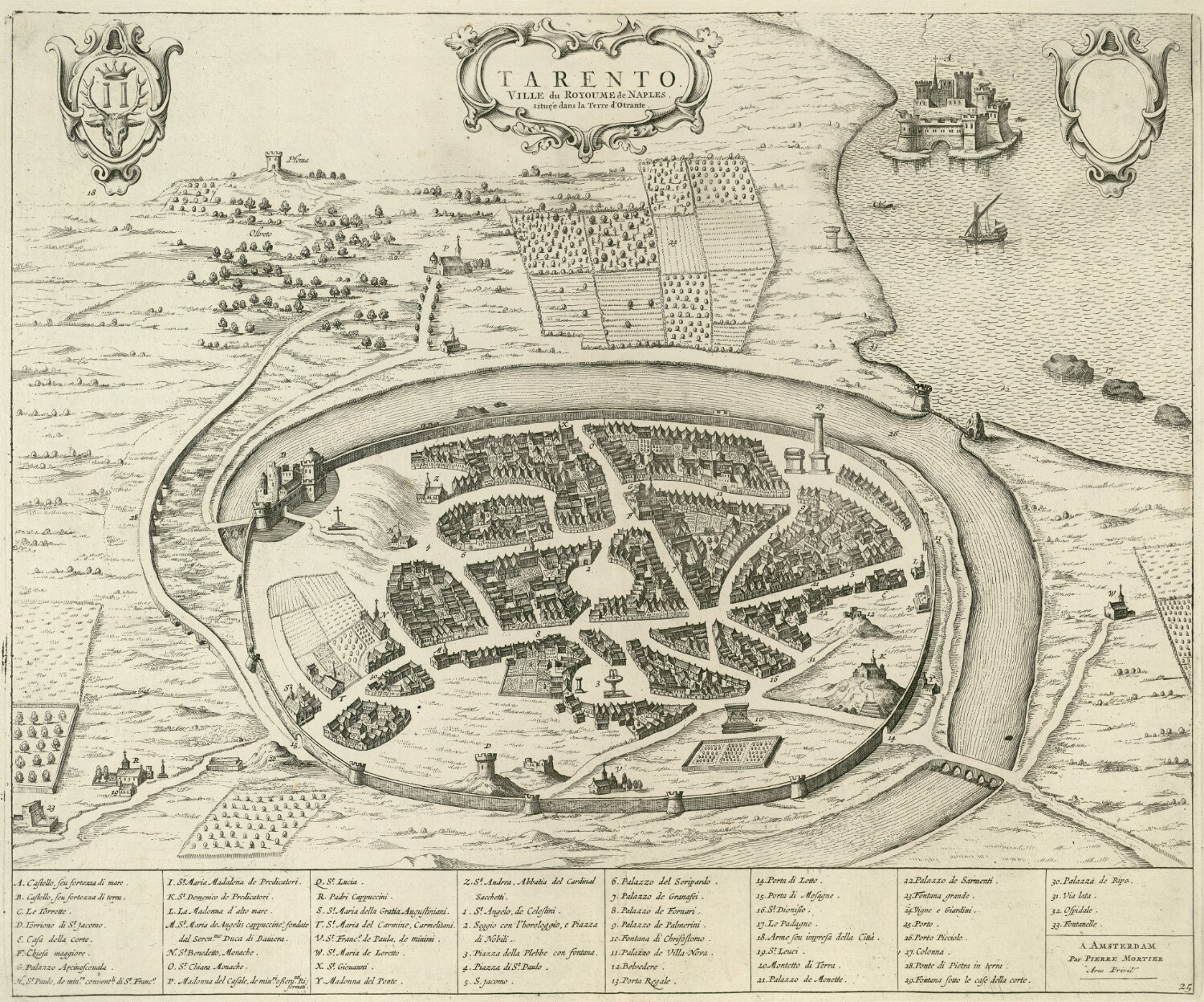 Pierre Mortier: Tarento Ville du Royoume de Naples située dans la Terre d'Otrante